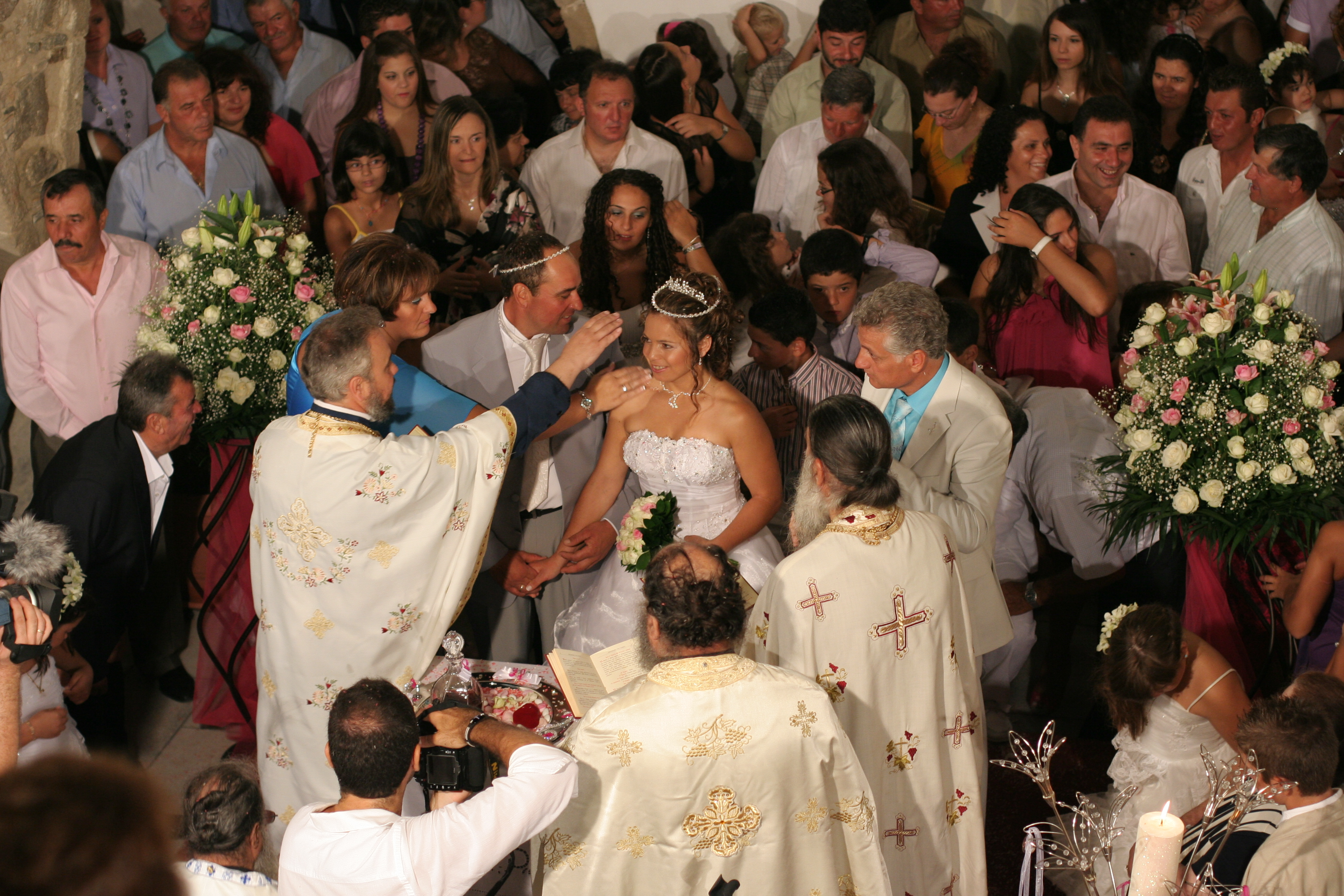 Greek Orthodox wedding in Tripodes (Vívlos, Biblos) on Naxos.